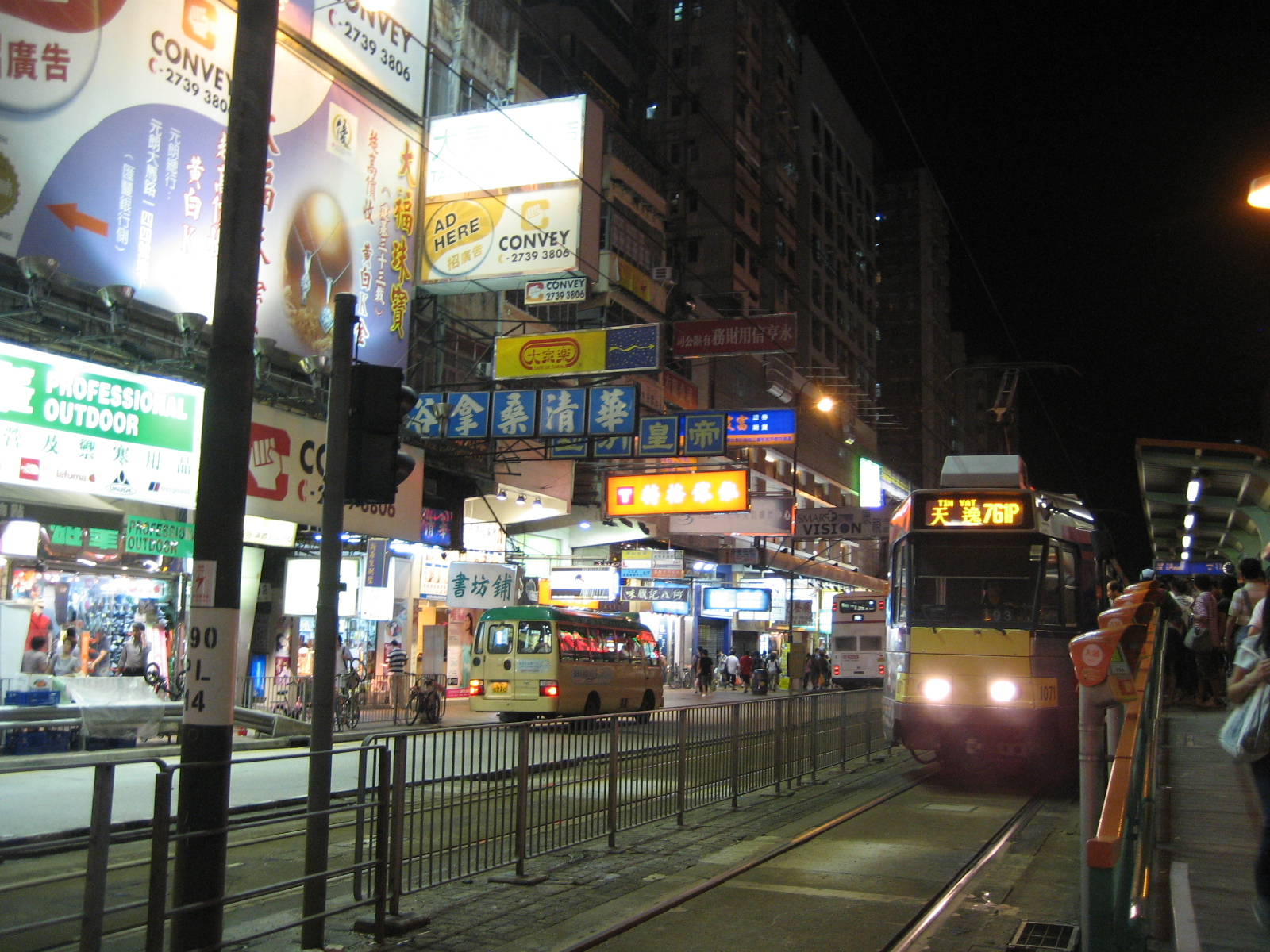 KCR Light Rail - Tai Tong Road Station, Yuen Long Town